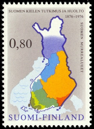 Figure of dialects in Finland